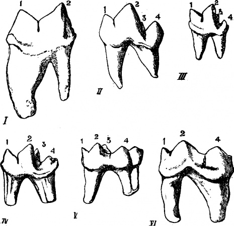 Left lower sectorial or carnassial teeth of Carnivora. I, Felis; II, Canis; III, Herpestes; IV, Lutra; V, Meles; VI, Ursus. 1, Anterior cusp of blade; 2, posterior cusp of blade; 3, inner tubercle; 4, heel. It will be seen that the relative size of the two roots varies according to the development of the portion of the crown they respectively support.